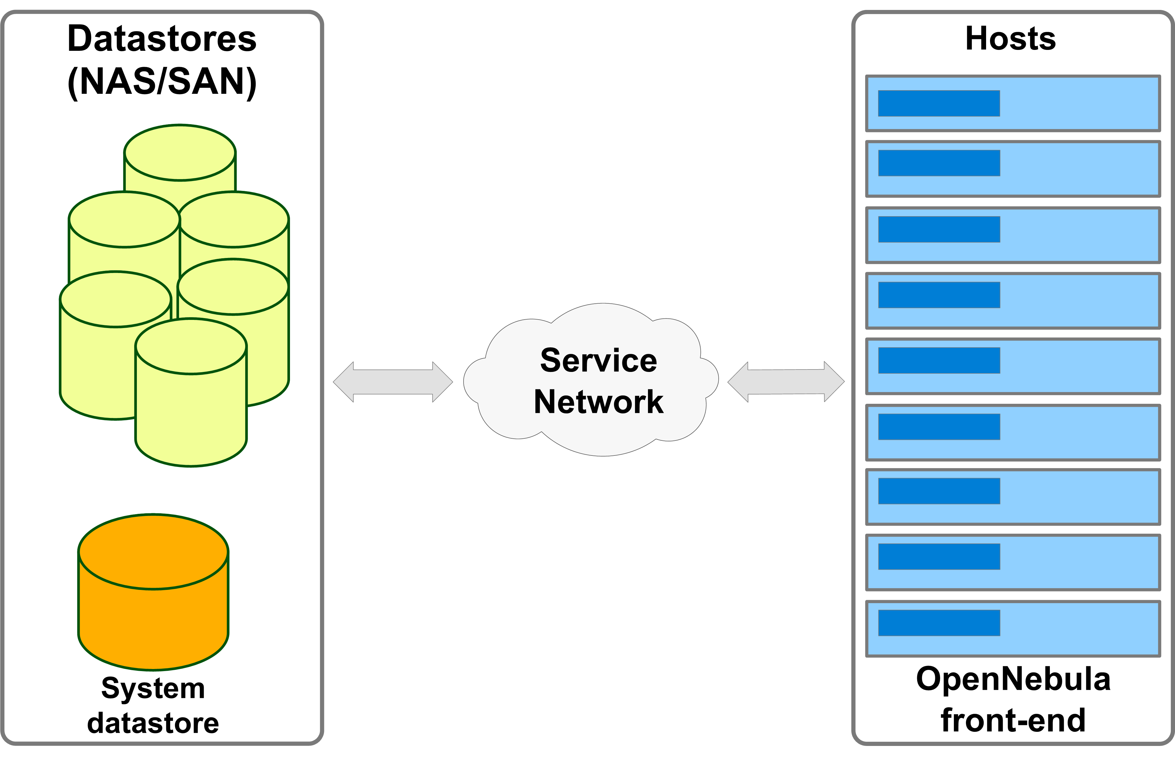 This diagram shows how OpenNebula uses Datastores to store VM disk images. Previously published: not published anywhere